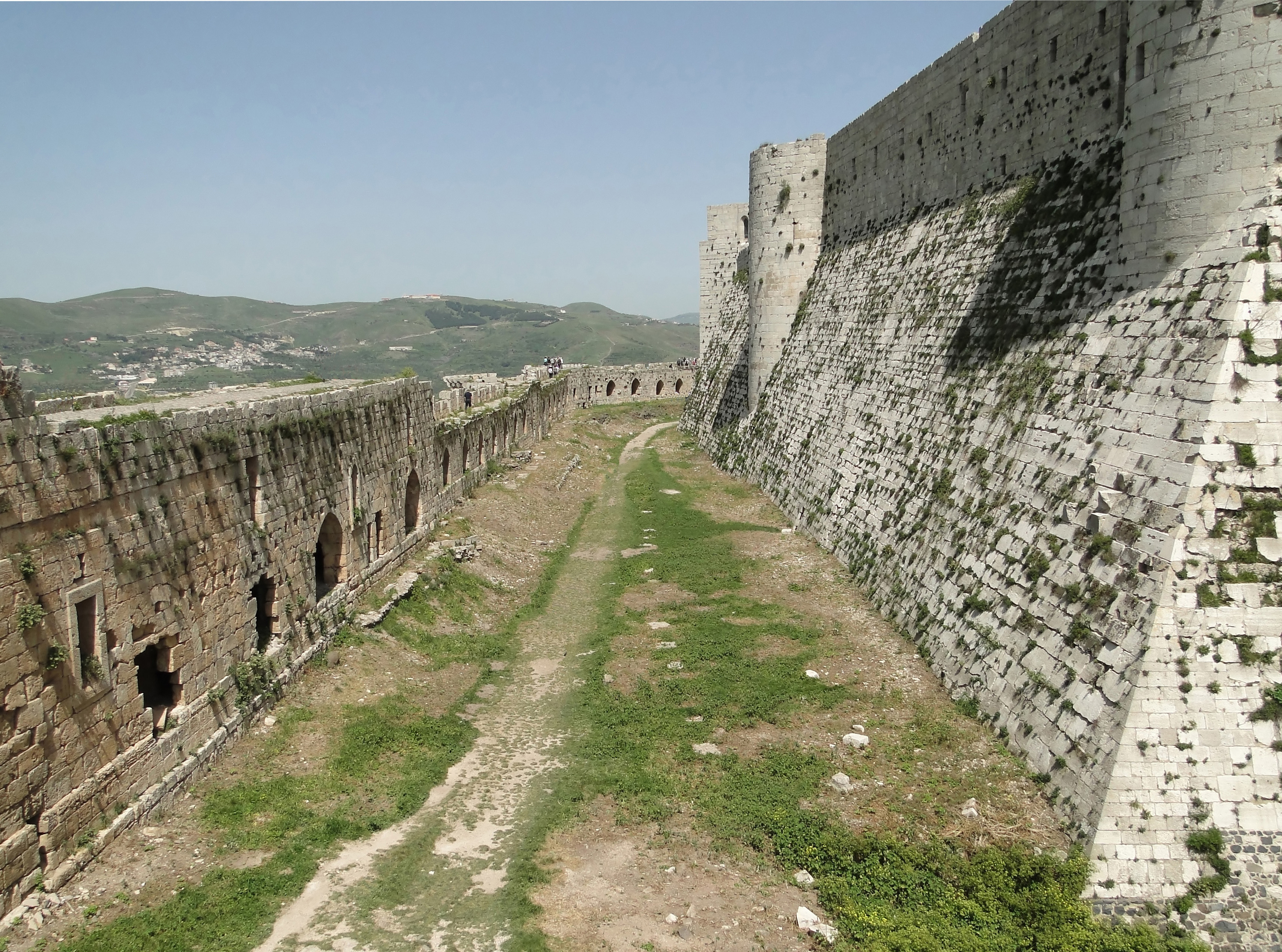 West moat of the Krak des Chevaliers, Syria